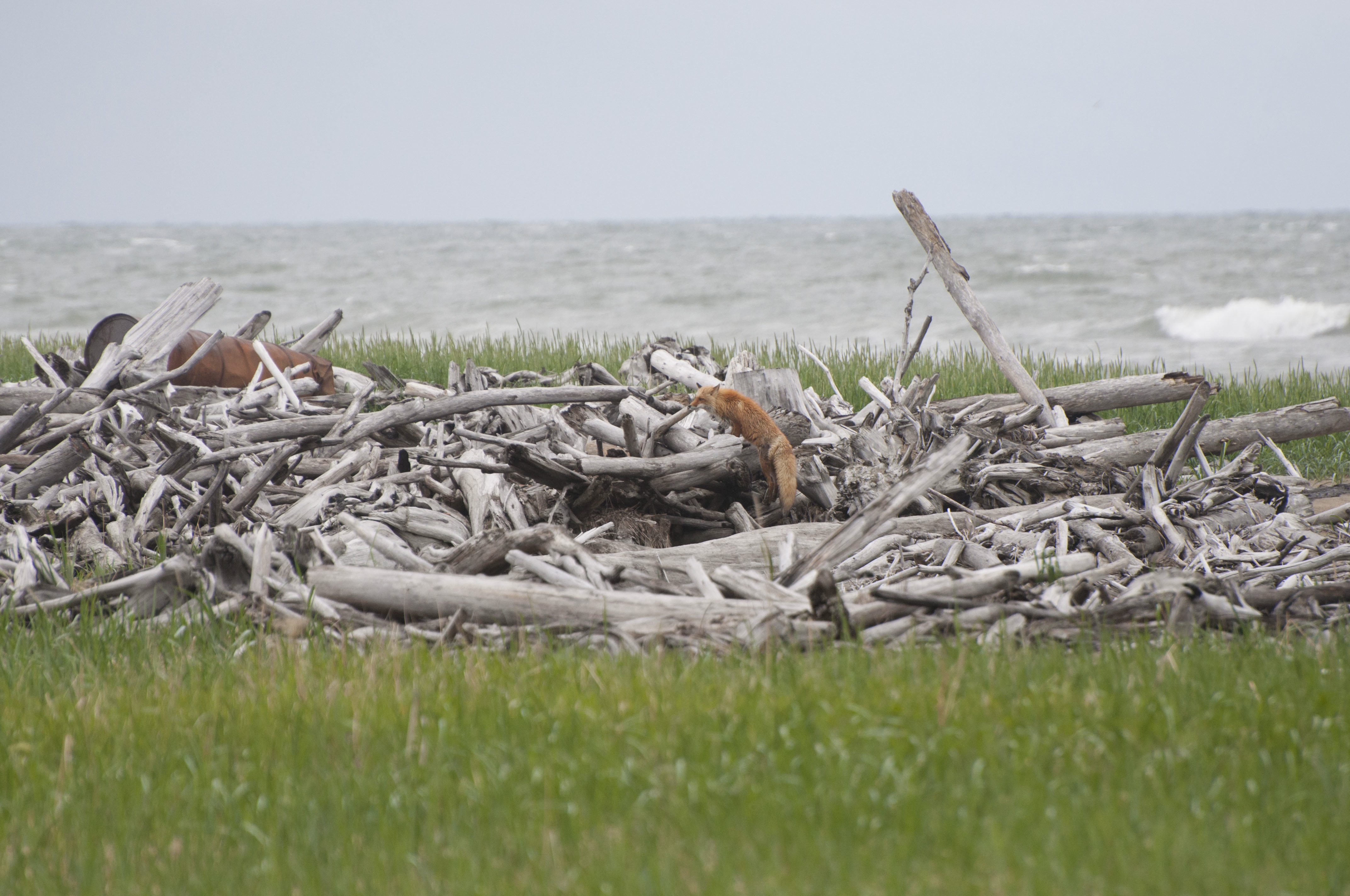 council_july_58